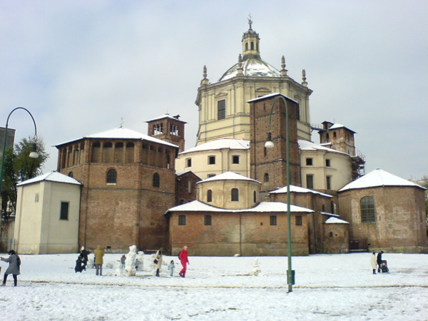 Winter view (as seen from "Piazza Vetra" square, in the "Parco delle Basiliche" park) upon the apses of the basilica of san Lorenzo Maggiore in Milan (Italy).